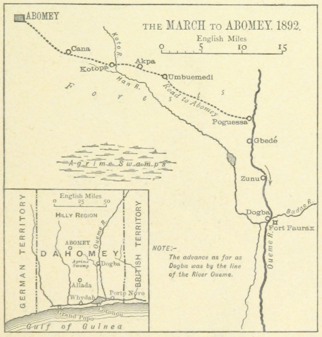 The route of the French advance on Abomey during the Second Franco-Dahomean War.